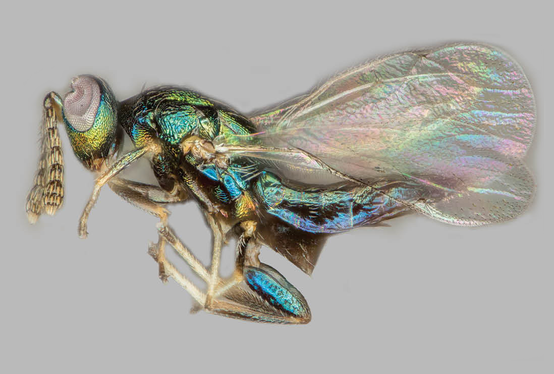 Lateral habitus of female Euderus set. Modified from original ZooKeys figure to only include lateral view. Hymenoptera:Chalcidoidea:Eulophidae